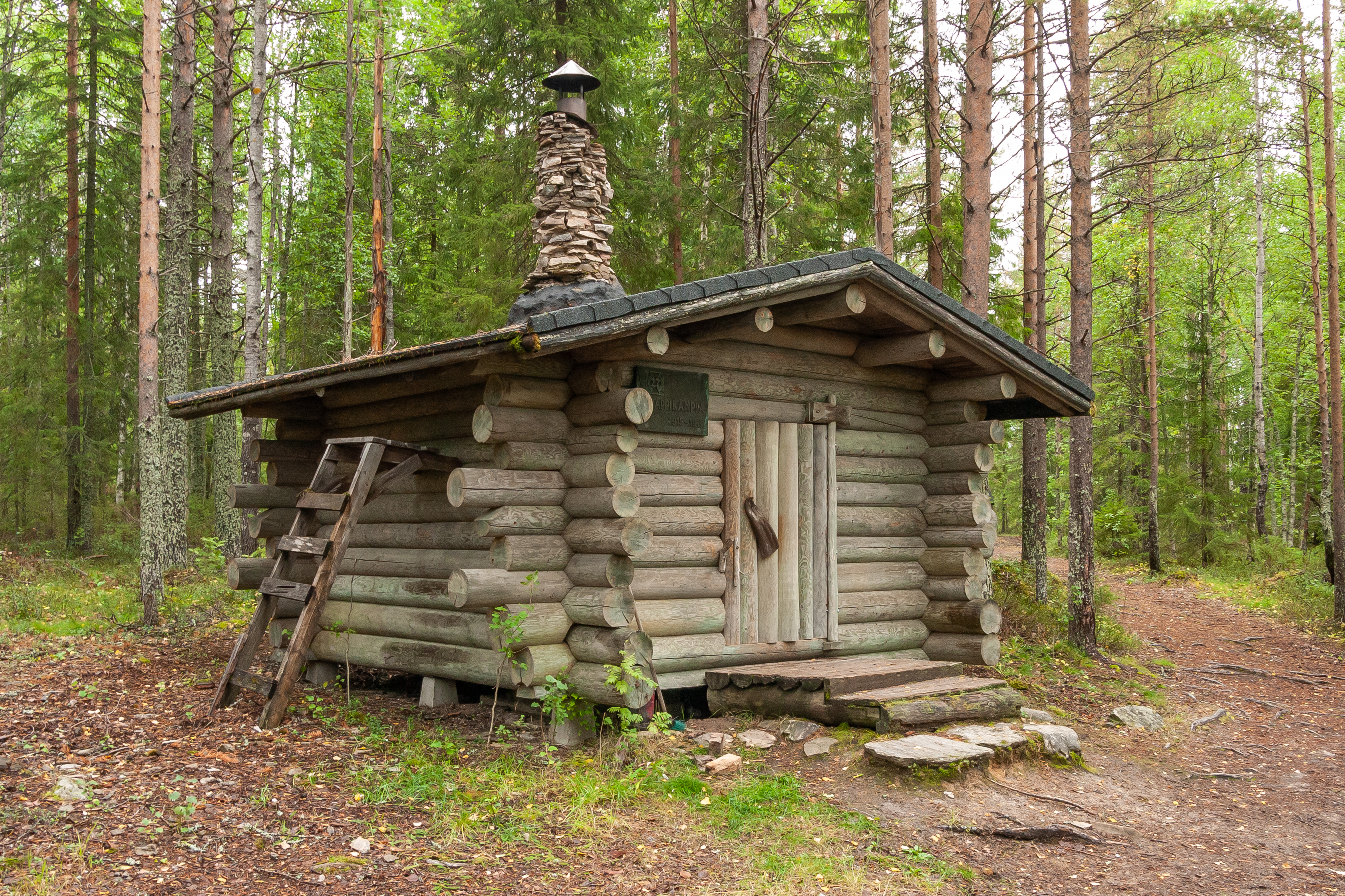 Kivalon jääkärikämppä in Martimoaapa–Lumiaapa–Penikat Mire Reserve in Keminmaa, Finland. The current hut was rebuilt in the place of the original one by the reserve officers association of Keminmaa in 1994. The original hut was part of the route that the Finnish Jäger Movement used on their way to Germany during the first world war.